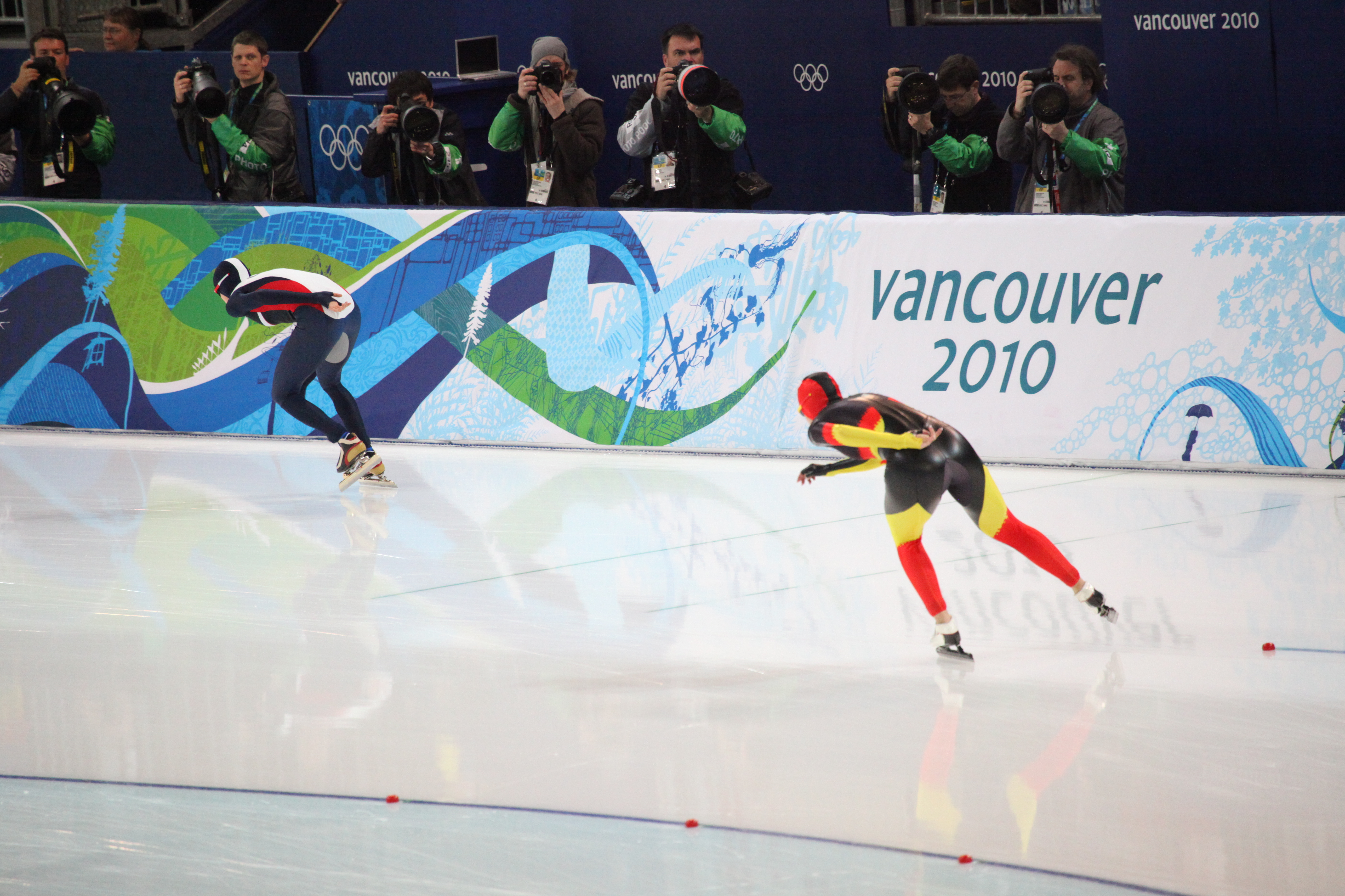 Pair 8 - Daniela Anschütz-Thoms (GER - in) and Martina Sábliková (CZE - out) - at Women's 5000m final - Speed Skating - Vancouver 2010